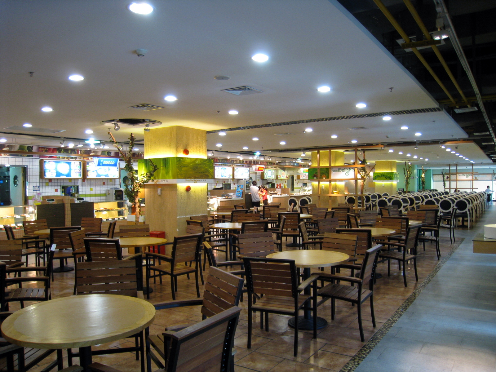 Food Court in Central Walk, Shenzhen